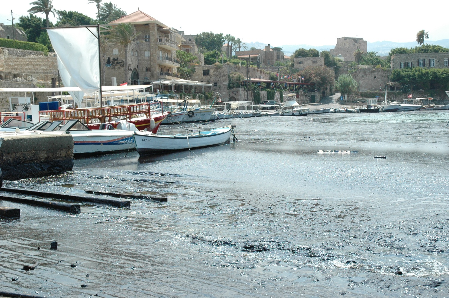 Boats on petroleum-polluted water at the harbour of Byblos, Lebanon.